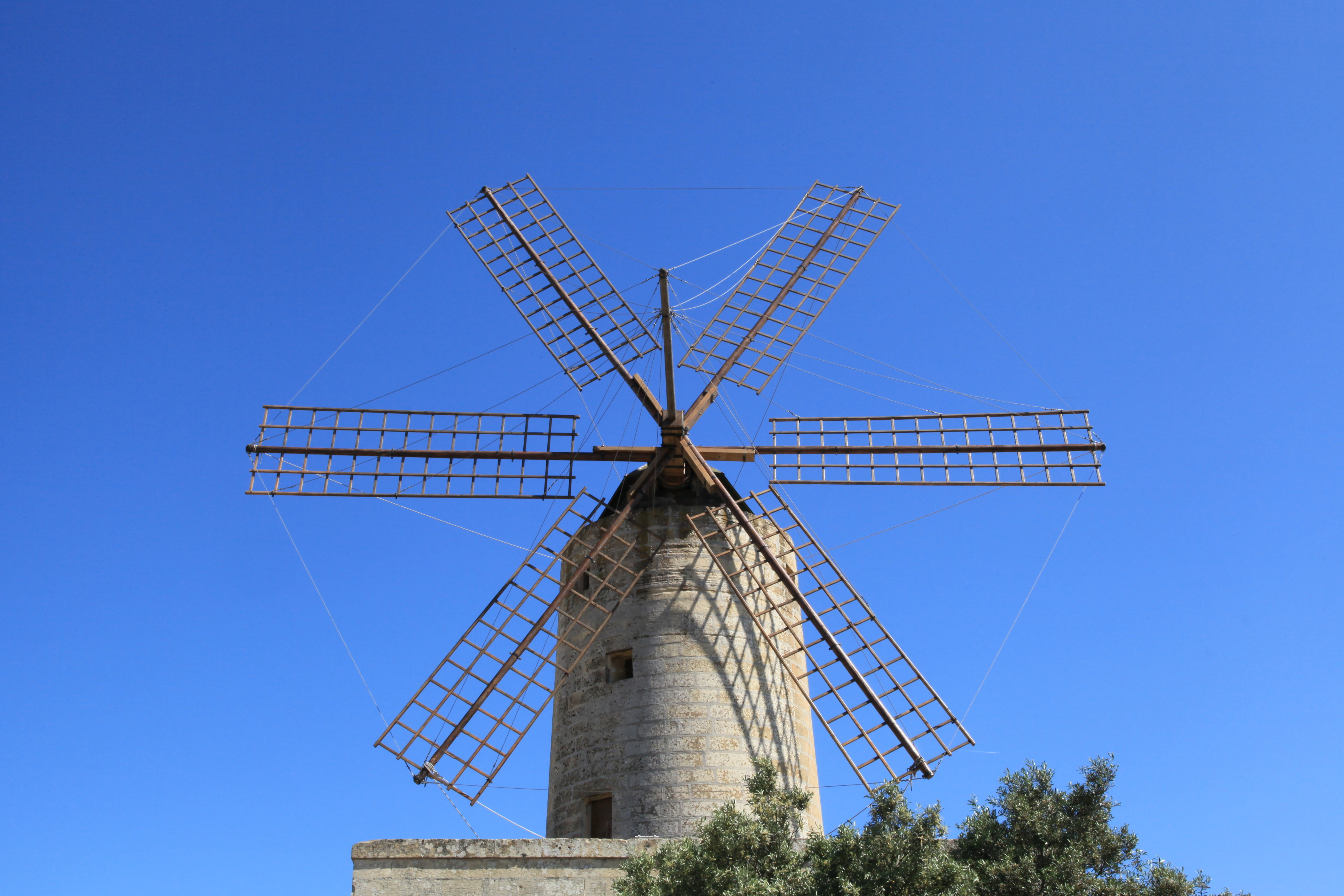 Xarolla Windmill at Triq Sant' Andrija in Żurrieq, Malta